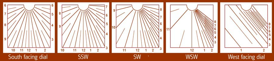 Vertical sundials declining from south to west / Own Work/ . By obsevation set for a dial located at 51° 20'N